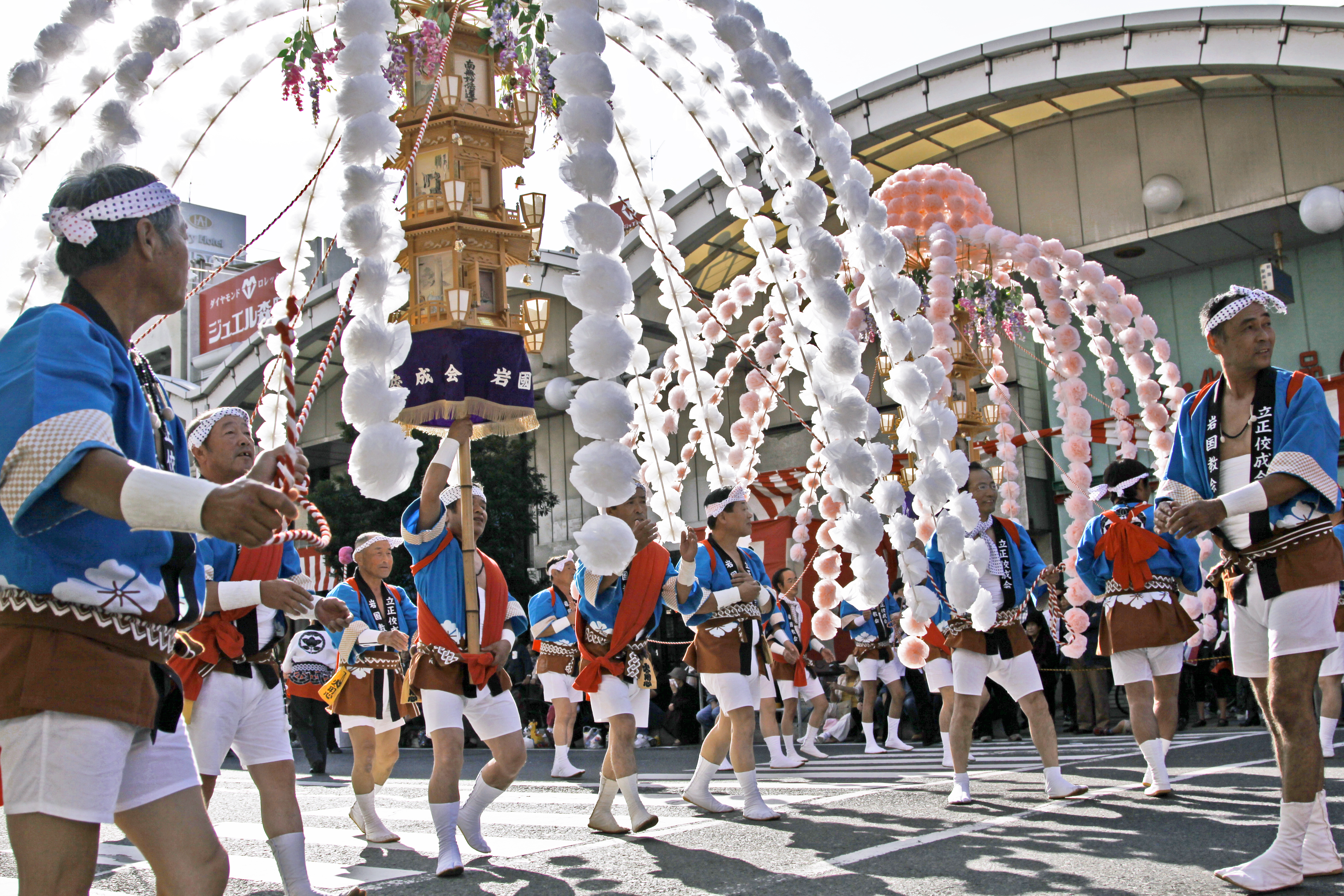 Festival participants carry a Buddhist float down the streets of Iwakuni during a parade at the 53rd Annual Iwakuni Festival Sunday. The festival was one of many going on in Japan during this fall season in celebration of this year’s harvest.